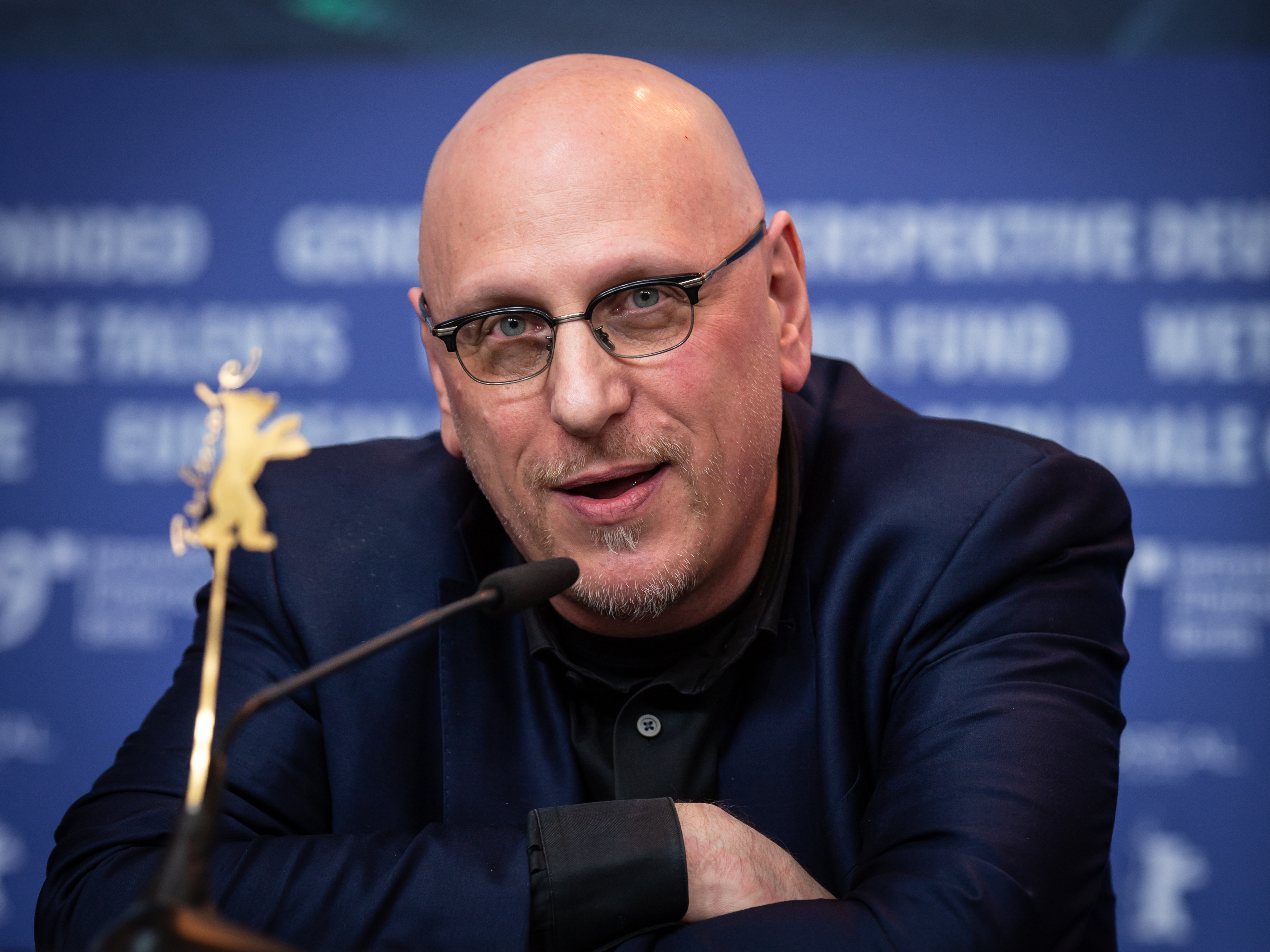 Film producer Oren Moverman at the Berlinale 2019